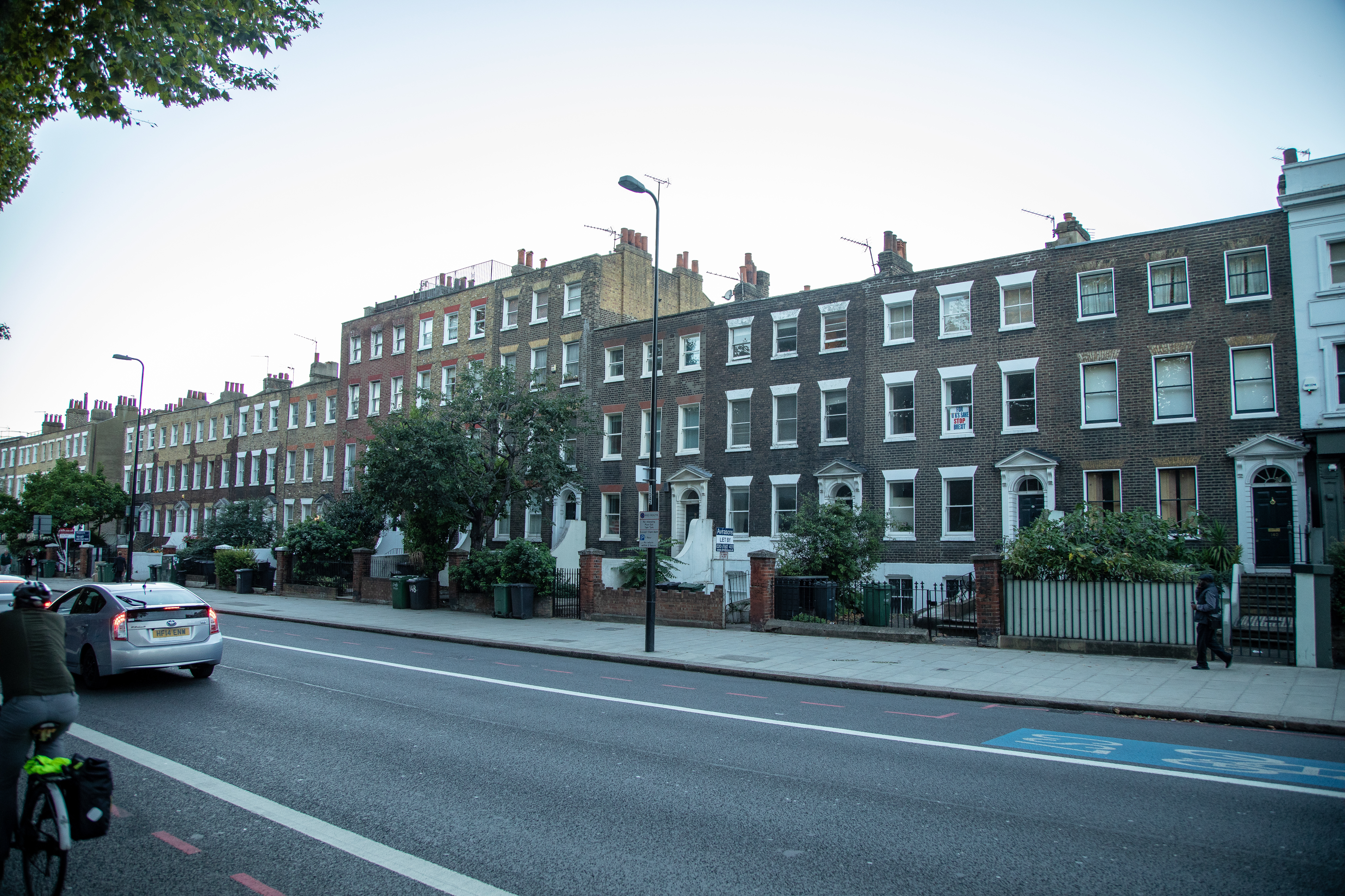 140-162, Kennington Park Road Se11 Wikidata has entry Q26355085 with data related to this item.